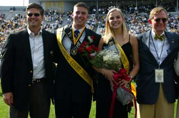 Vanderbilt University Homecoming King and Queen